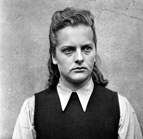 Irma Grese, who was in charge of the Bergen Belsen death cells; sentenced to death. Item Name: THE LIBERATION OF BERGEN-BELSEN CONCENTRATION CAMP 1945: PORTRAITS OF BELSEN GUARDS AT CELLE AWAITING TRIAL, AUGUST 1945. WAR OFFICE SECOND WORLD WAR OFFICIAL COLLECTION